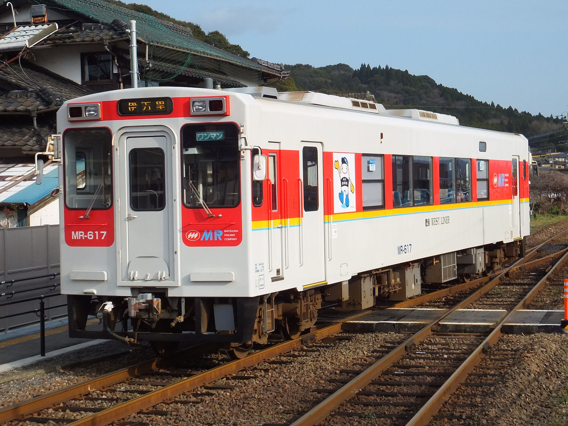 Matsuura Railway MR617 DMU at Meotoishi Station